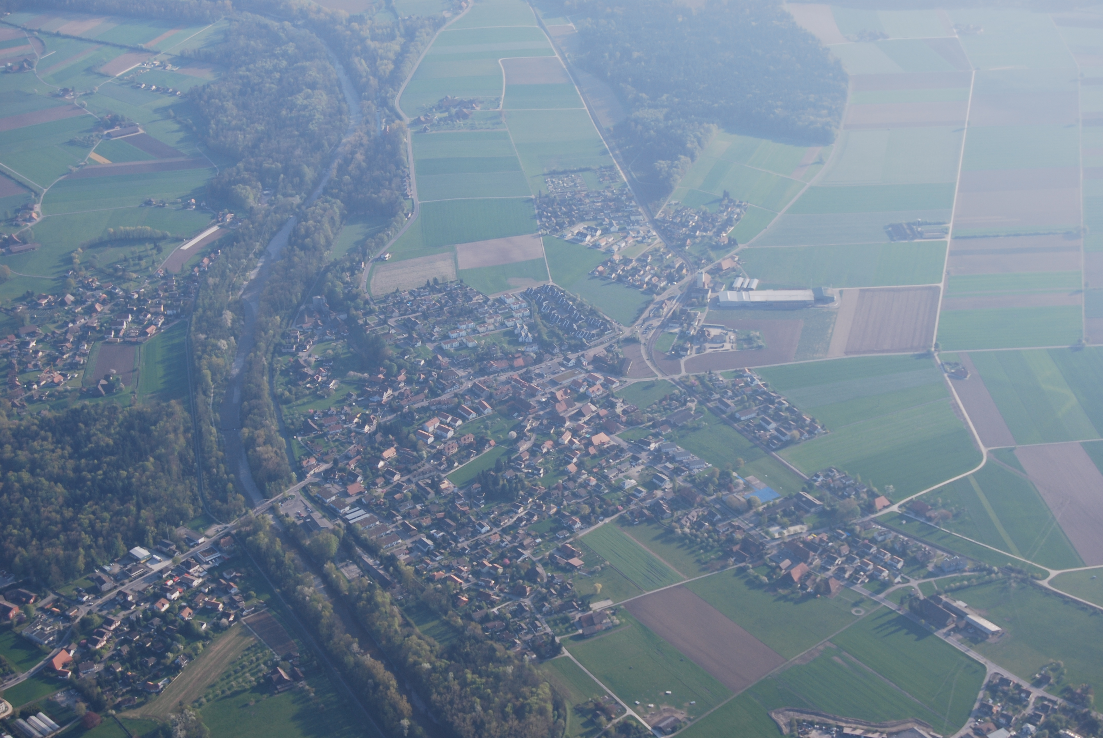 Bätterkinden, canton of Bern, SwitzerlandEsperanto: Bätterkinden, Kantono Berno, Svislando